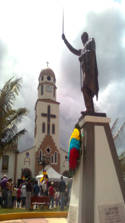 Iglesia Nuestra Señora del Carmen con el Monumento al Libertador Simon Bolivar